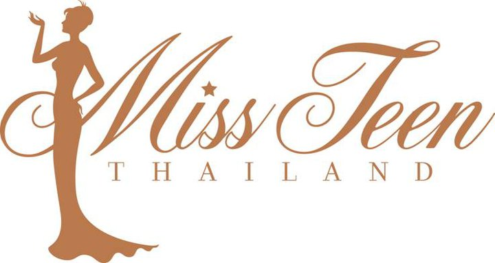 This is Miss Teen Thailand logo. The beauty contest for Thai girls.